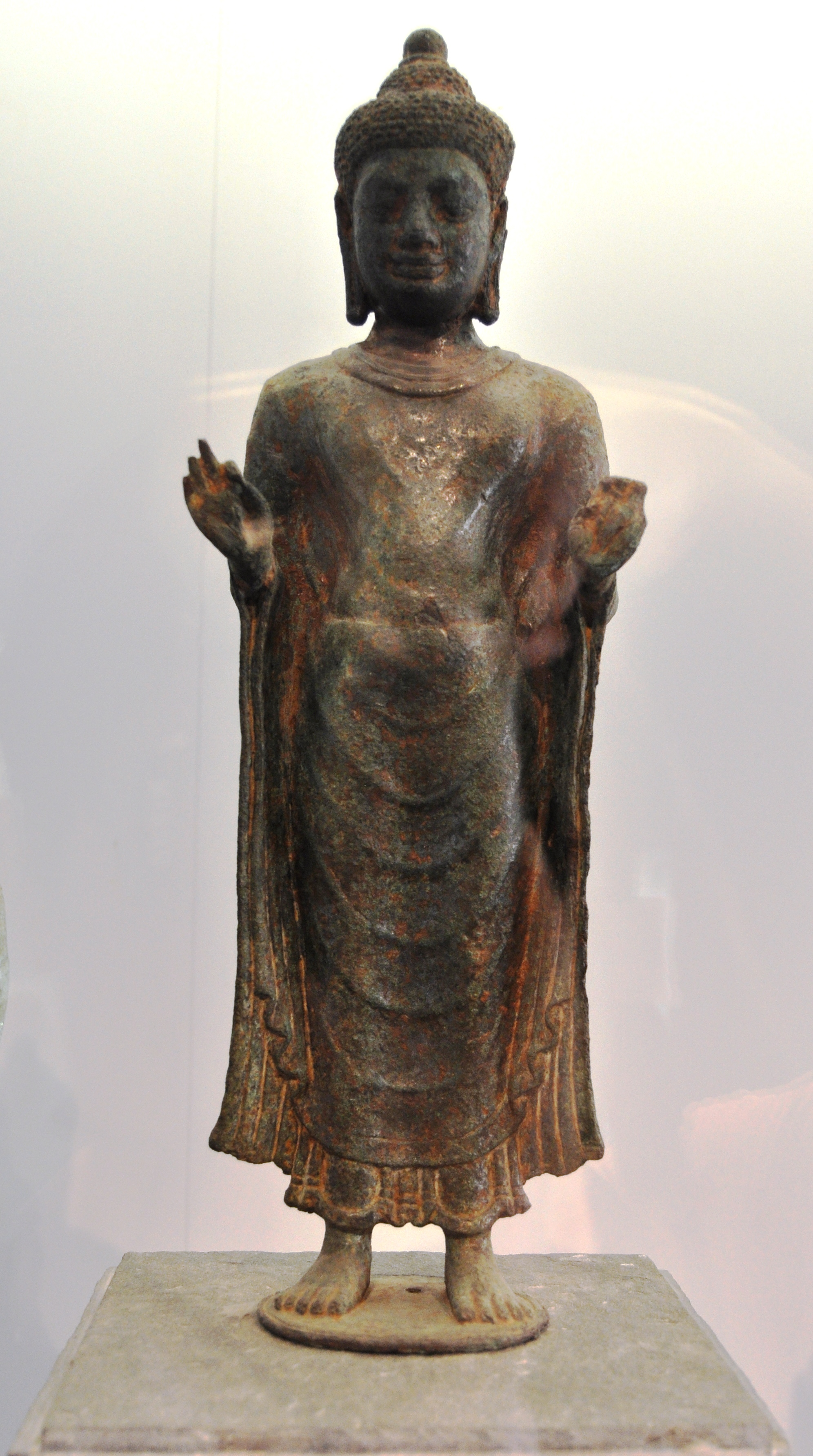 Bronze, in room 6 “Champa Culture (2-17c)” in the Museum of Vietnamese History, Phan Thiết, Bình Thuận